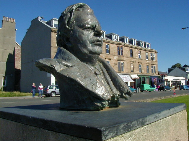 John Logie Baird